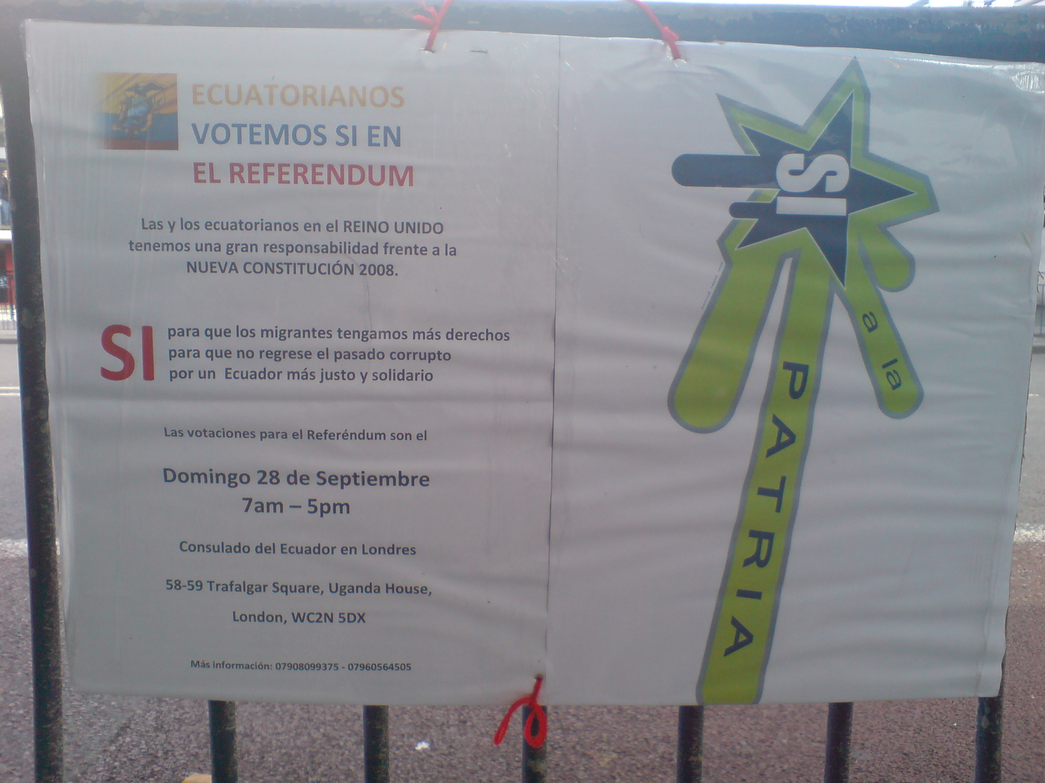 Voting for the Ecuadorian diaspora in London. Attached to a railing at Elephant and Castle in south London.